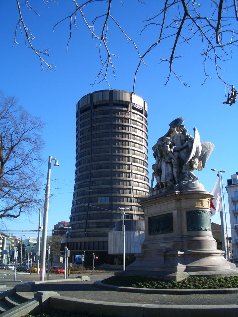 The building of Bank of International Settlements in Basel.